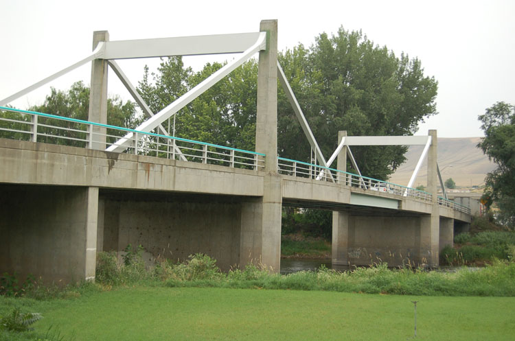 The Benton City - Kiona Bridge across the Yakima River in Benton City, Washington.